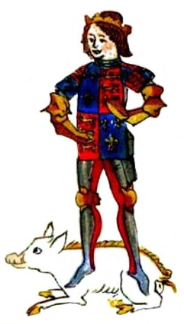 Edward, Prince of Wales, son of King Richard III and his Queen consort, Anne Neville. Cropped portion of, Richard III and family in the contemporary Rous Roll in the Heralds' College.